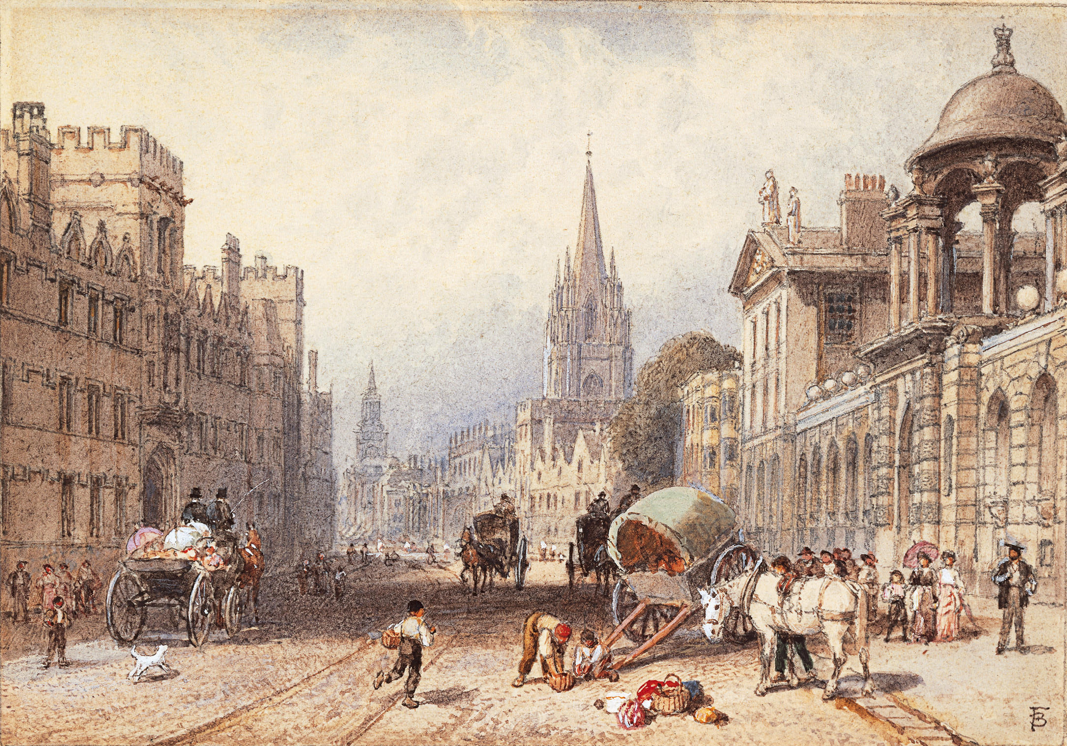 A busy day on The High, Oxford with figures and a pony and trap near Queen's College, signed with monogram, watercolour, 9.5 x 14 cm